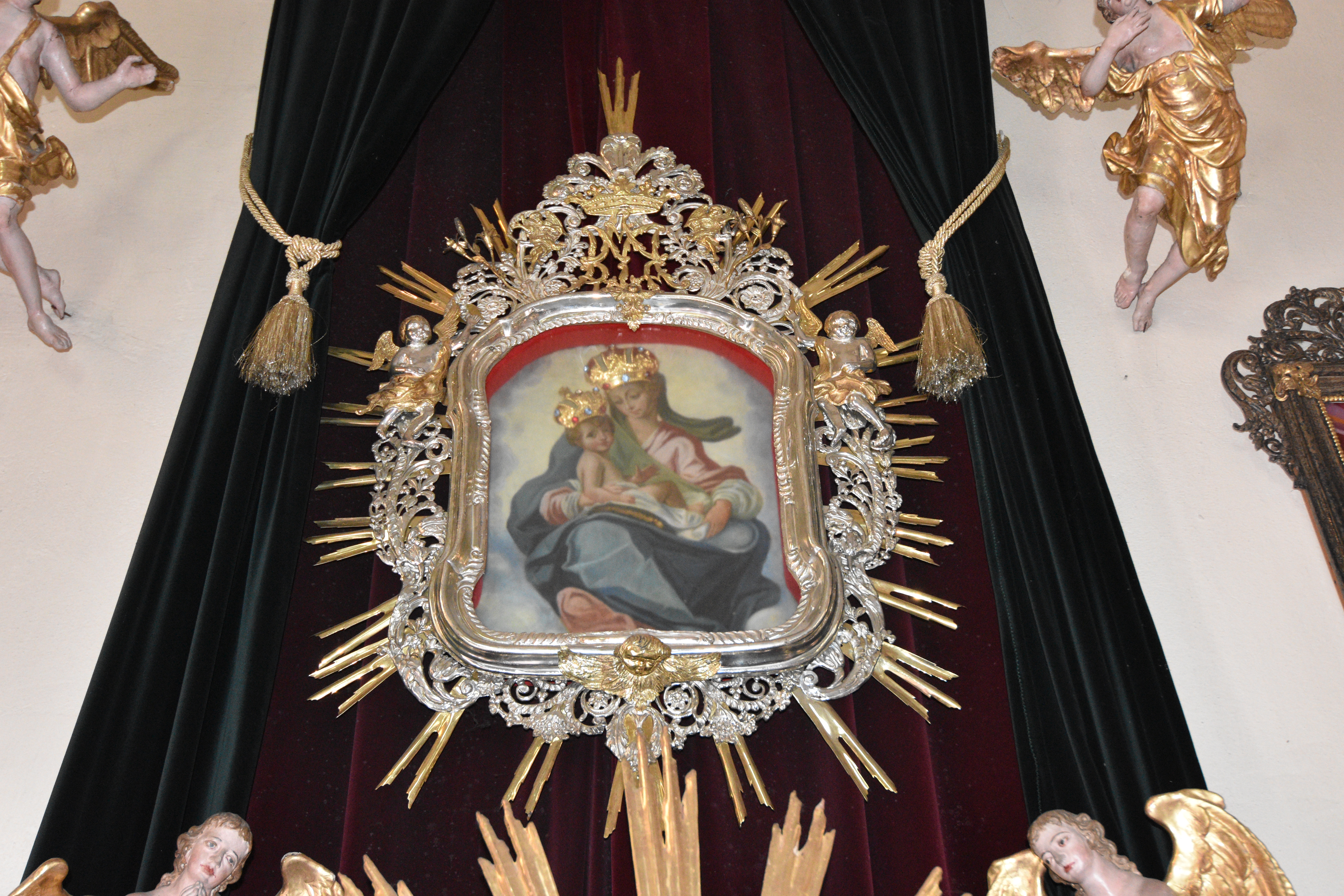 Pfarrkirche Hatzendorf - Interior